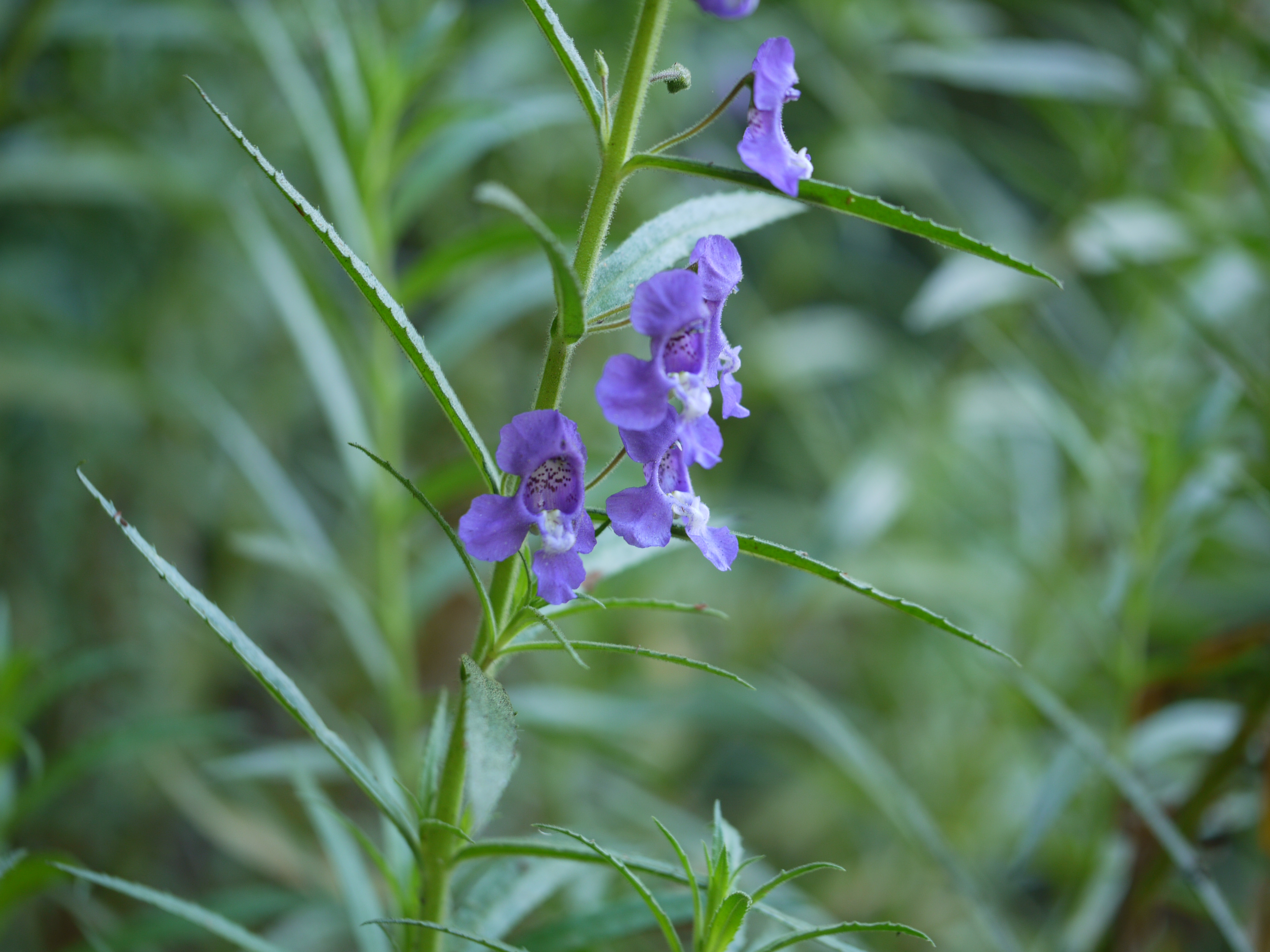 Plantaginaceae (plantain family) » Angelonia salicariifolia Humb. & Bonpl. angel-on-ee-a -- derived from South American name for the plant, Angelon ... Dave's Botanary sa-lih-kar-ee-FOH-lee-uh -- bearing leaves like that of willow ... Dave's Botanary commonly known as: granny's bonnets, willowleaf angelonia Native to: Brazil, Puerto Rico; naturalized elsewhere (as in India); also cultivated in tropics References: Dave's Garden • NPGS / GRIN • Flowers of Sahyadri by Shrikant Ingalhalikar